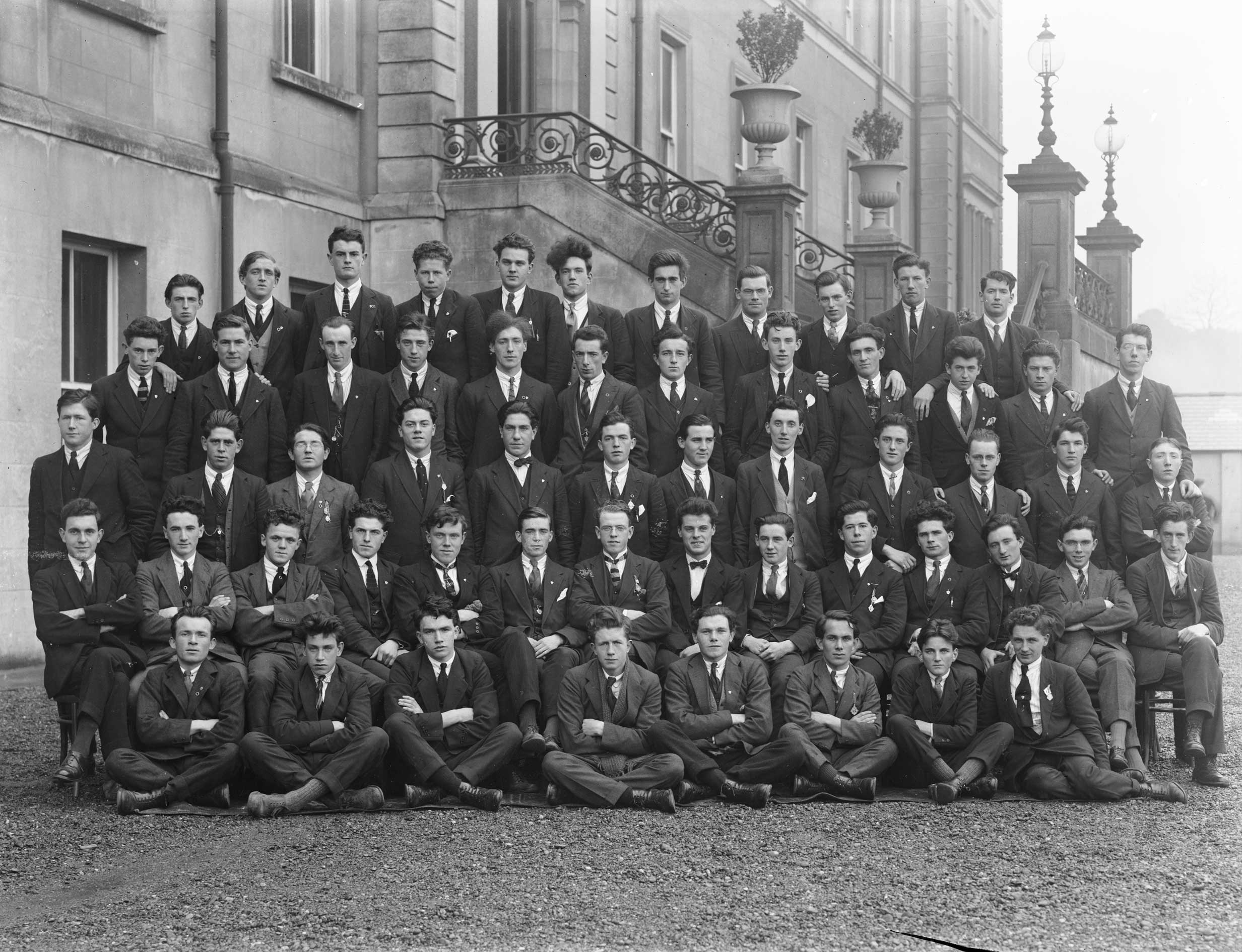 A group of students from Mallow pictured at De La Salle College, Waterford. Many of the young Corkmen are wearing the Fáinne rings and/or Pioneer badges on their lapels, showing that they speak Irish (enthusiastically) and abstain from alcohol. NLI Ref.: P_WP_3140